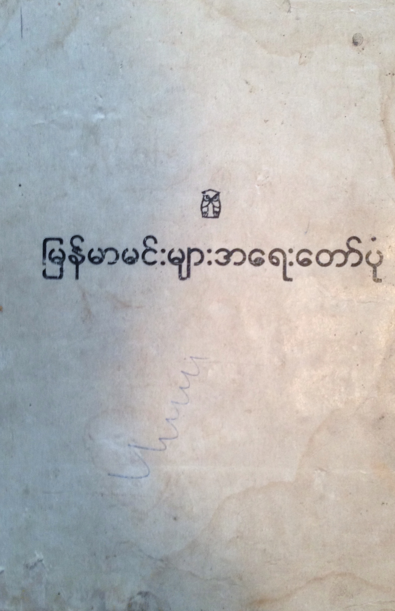 Based on my photograph of a copy of "Myanmar Min Mya Ayedawbon" (Chronicles of Burmese monarchs) published in 1967